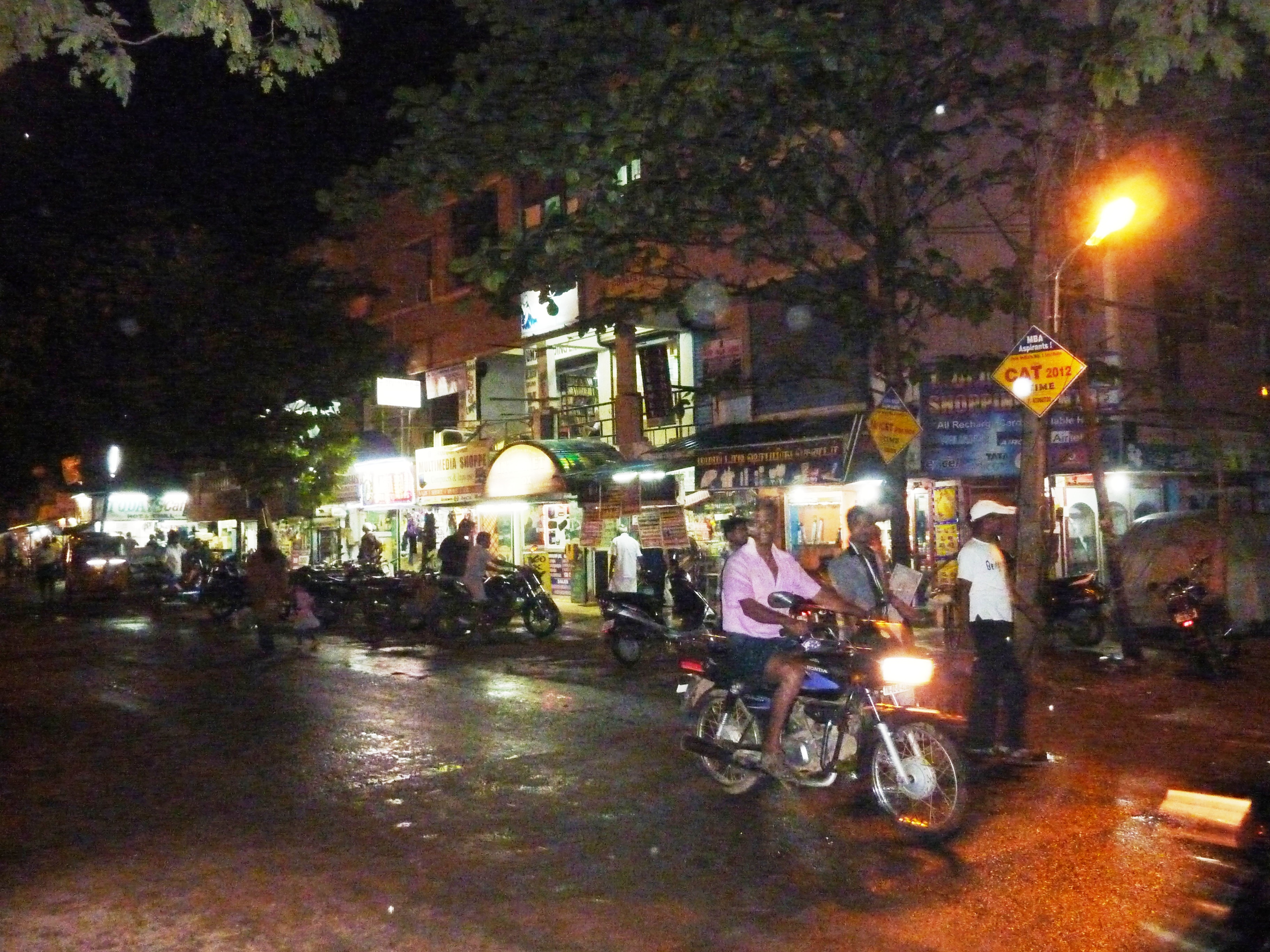 Shops outside BV School